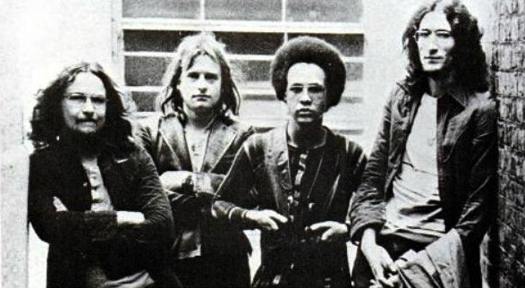 Photo of the band Hookfoot from a Dick James Music company ad.